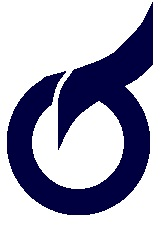 Ikeda Fukui chapter